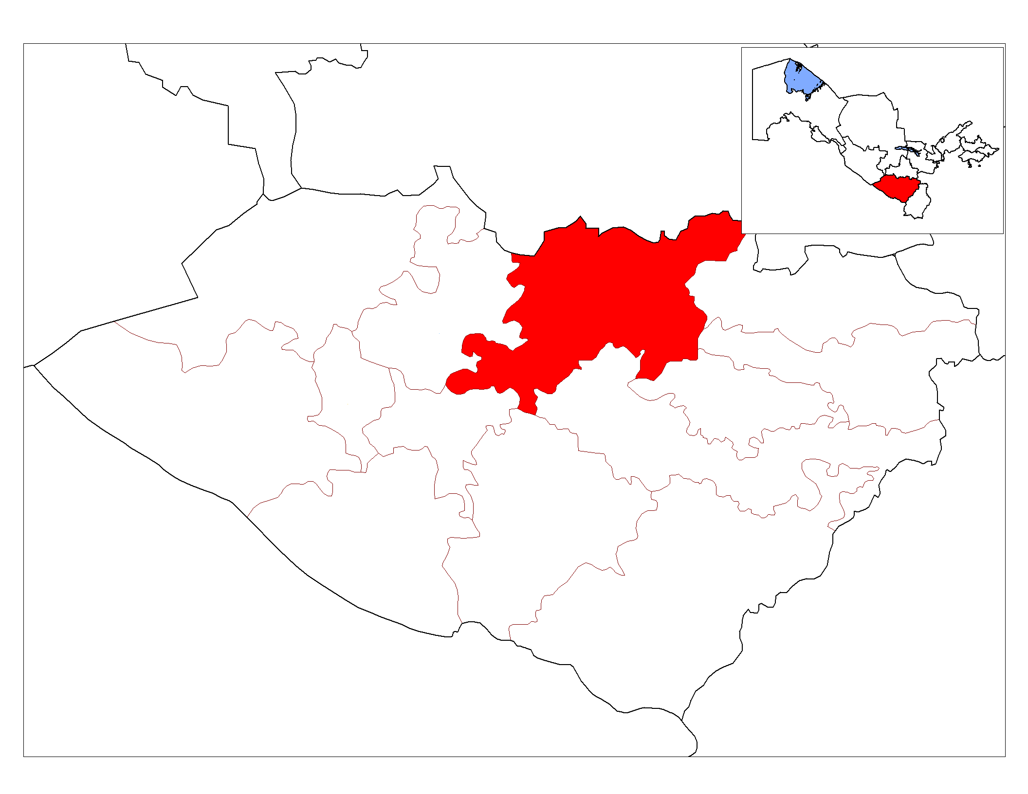 Location map of Chiroqchi District in Qashqadaryo Province, Uzbekistan